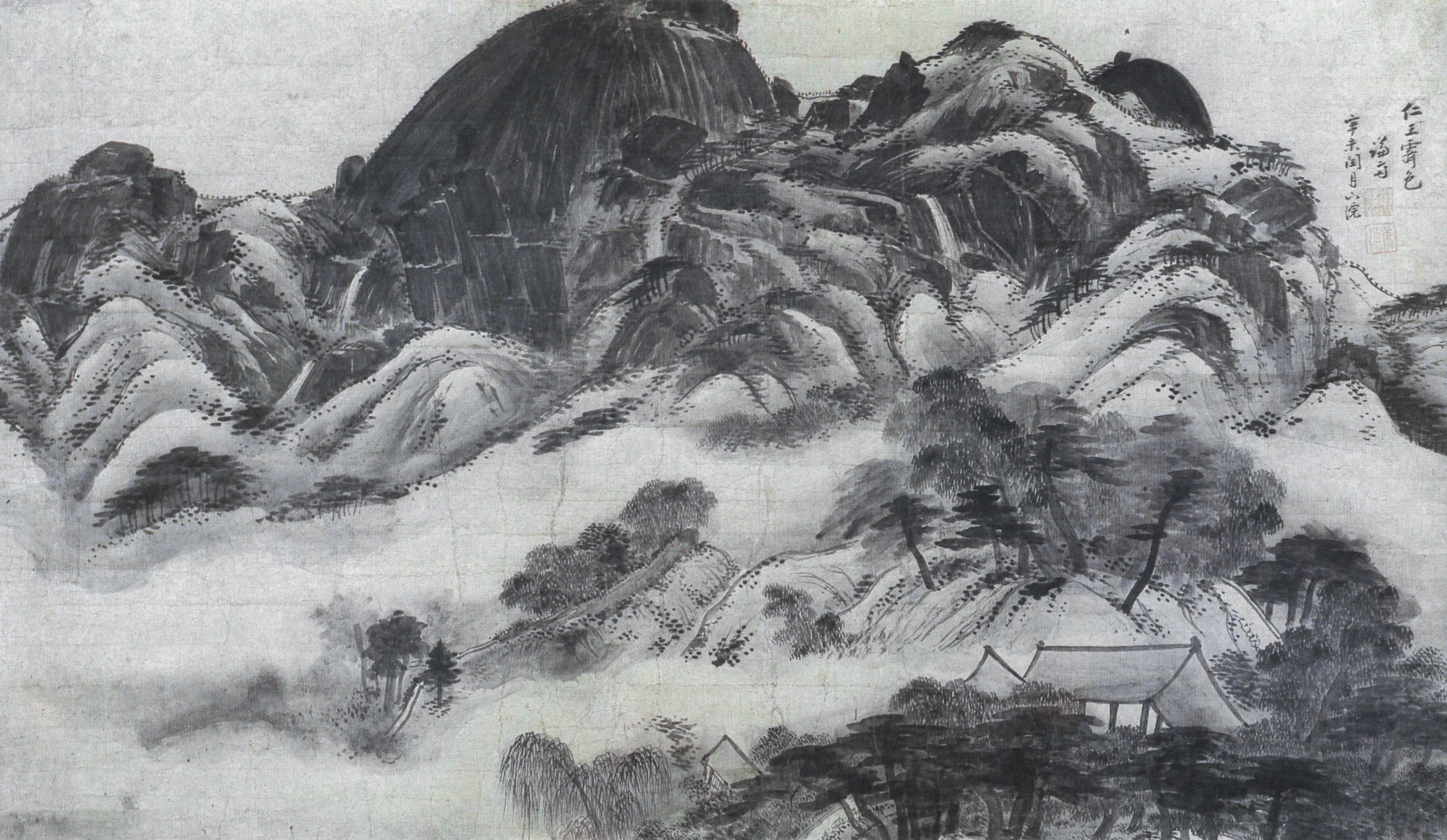 Clearing After Rain in Mt. In wang. 1751. Hanging scroll, ink on paper. 79.2 x 138.2 cm. Ho-Am Museum, Yongin.